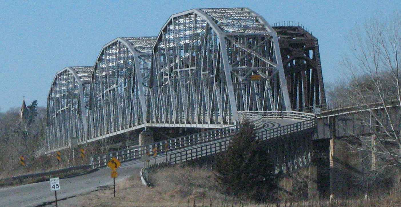 Rulo Bridge across the Missouri River.